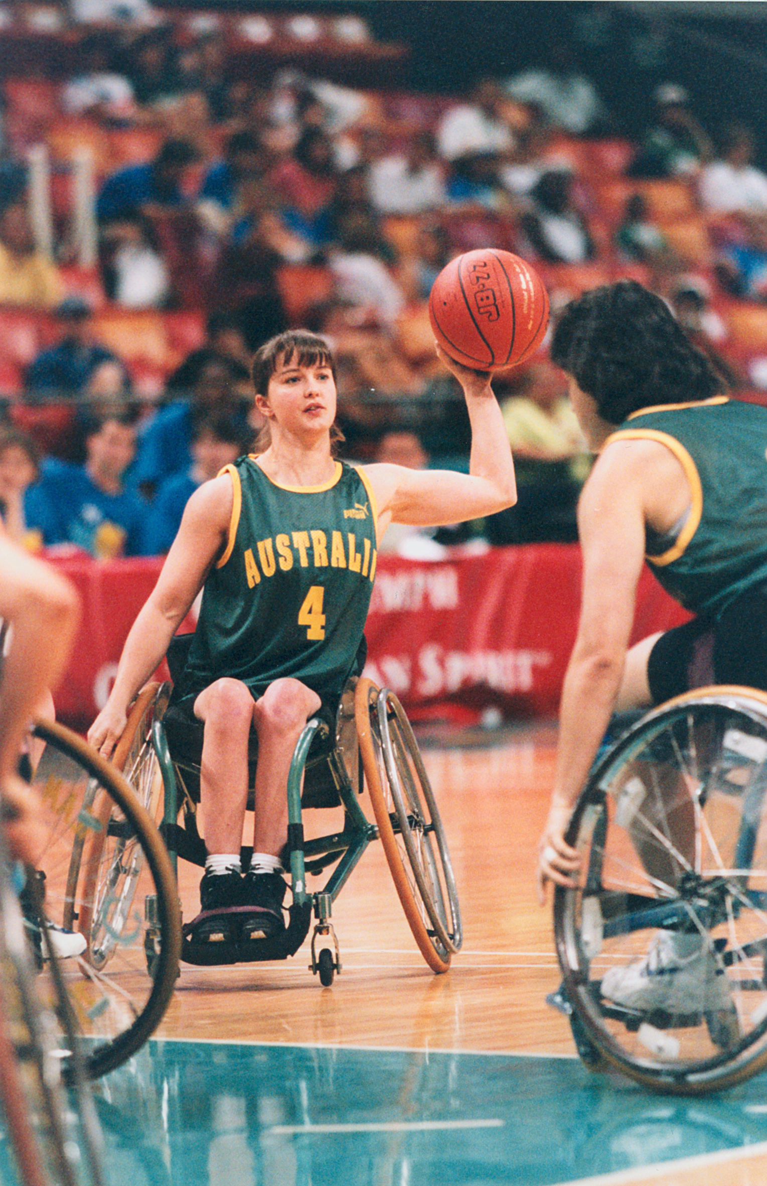 Australian women's wheelchair basketballer Julianne Adams passes the ball at the 1996 Atlanta Paralympic Games